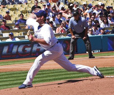 Derek Lowe pitching